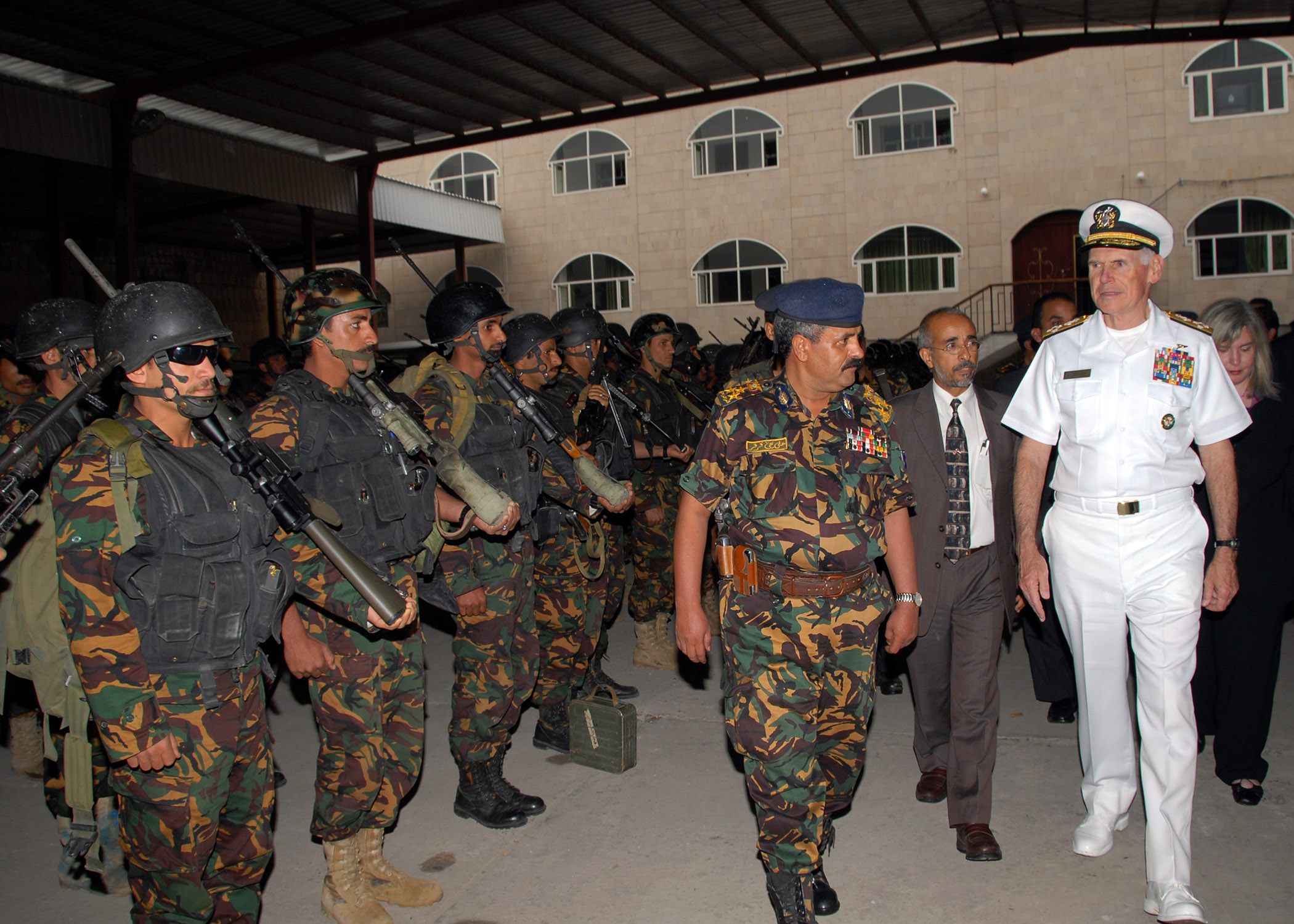 SANA’A, Yemen (July 17, 2007) – Adm. William J. Fallon, commander of U.S. Central Command, tours the Yeman military training facility in Sana'a. Fallon is visiting countries within the U.S. Central Command area of responsibility to build upon diplomatic relations and expand military cooperation throughout the Middle East, Central Asia and Horn of Africa. U.S. Navy photo by Mass Communication Specialist 2nd Class Alisha M. Frederick (RELEASED)